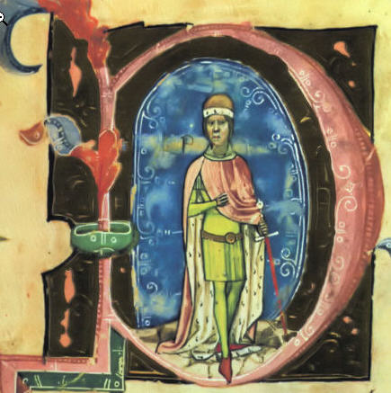 Stephen IV of Hungary